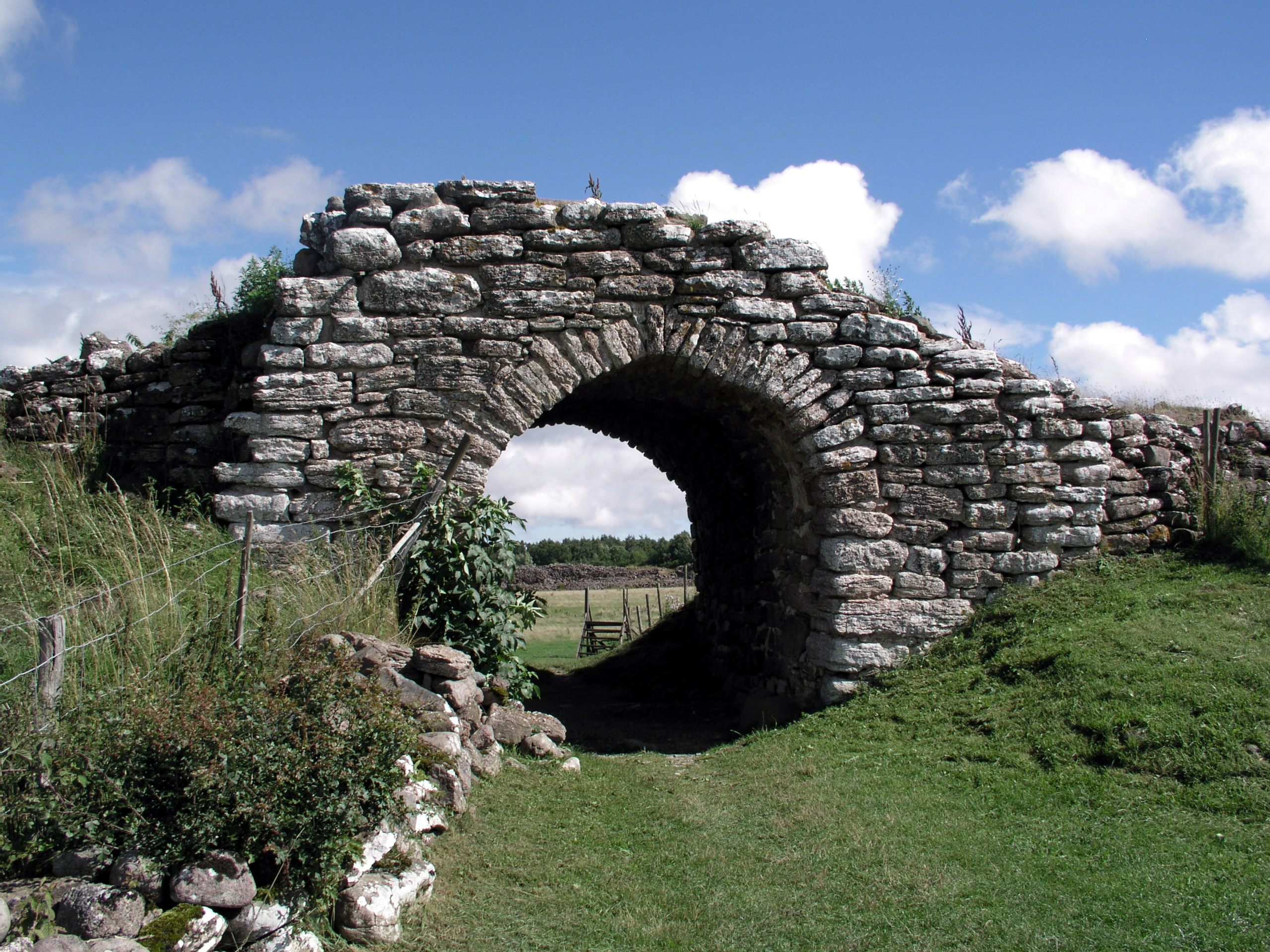 Gråborg, the largest prehistoric circular fort in Sweden, rebuilt to present size in 12th century